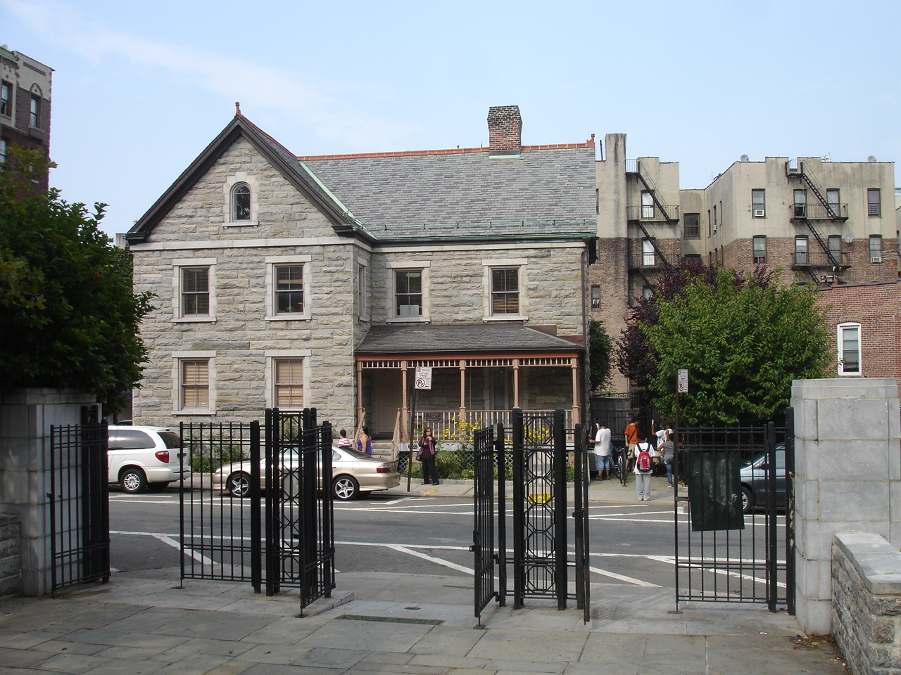 The Reservoir Keeper's House at the Williamsbridge Reservoir in Bronx, New York, a building listed on the National Register of Historic Places.